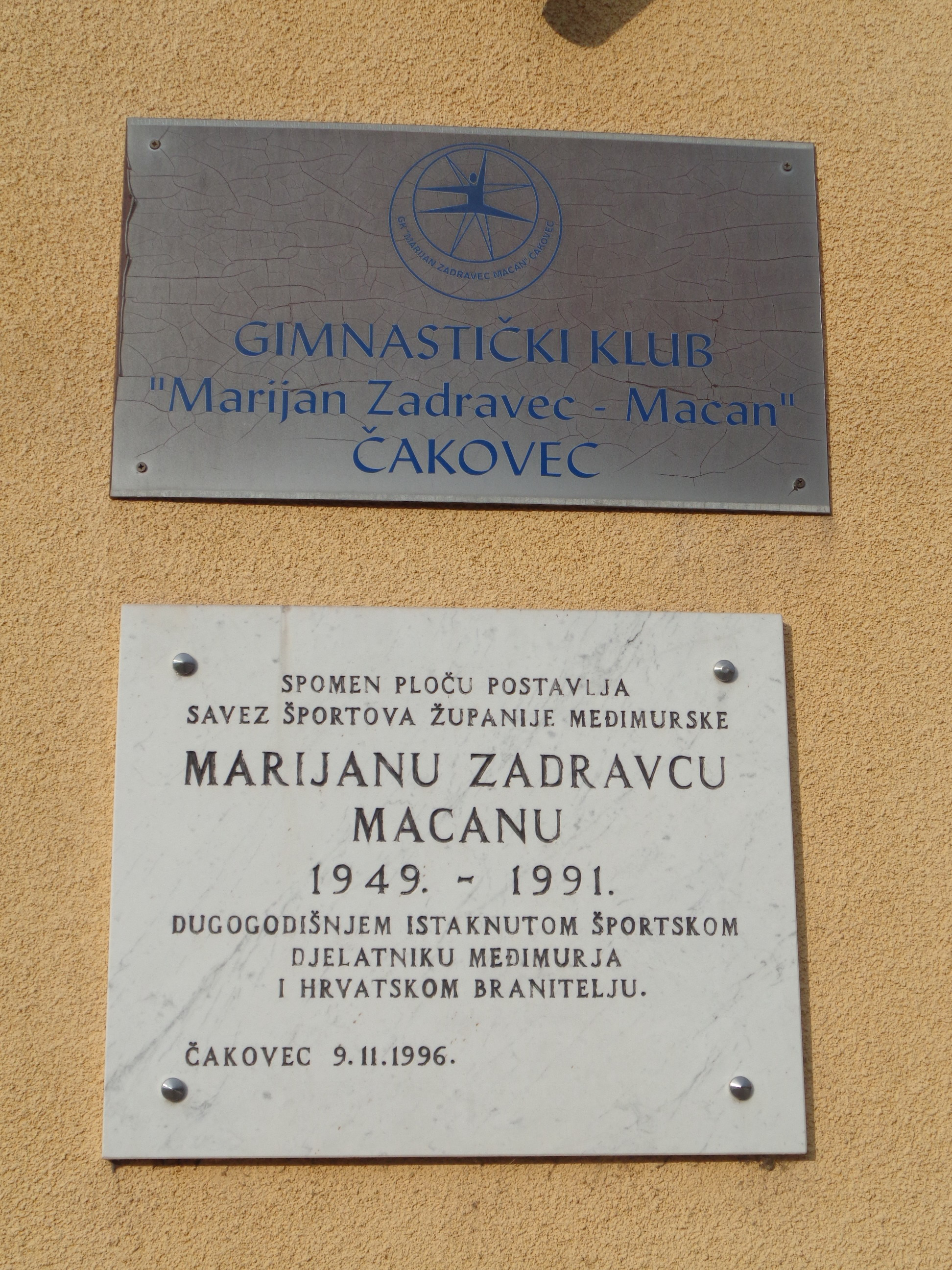 Memorial plaque dedicated to Marijan Zadravec-Macan, a distinguished sportsman, at Macanov dom -sports hall in Čakovec, Medjimurje County, Croatia